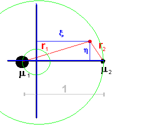 Inretial co-ordinates in 3-body system